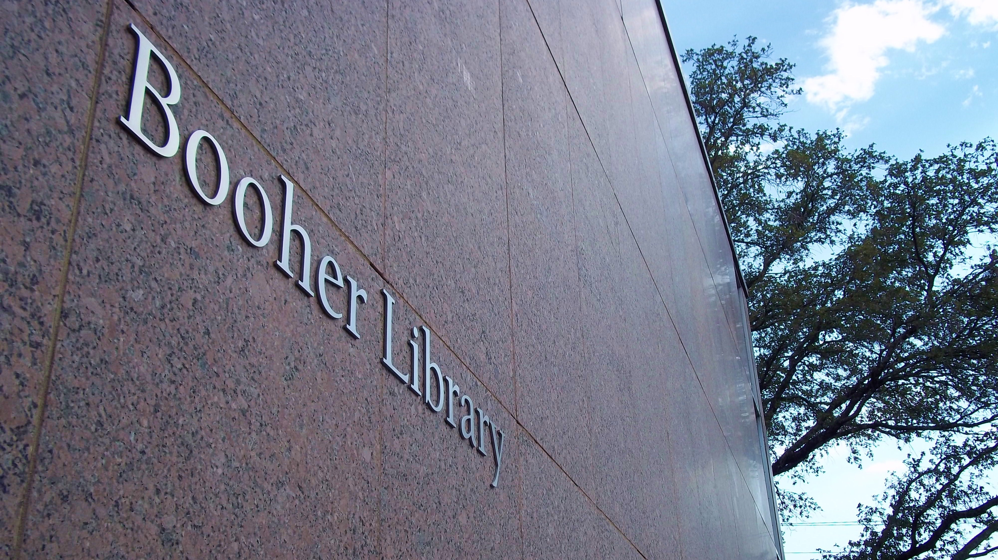 Booher Library